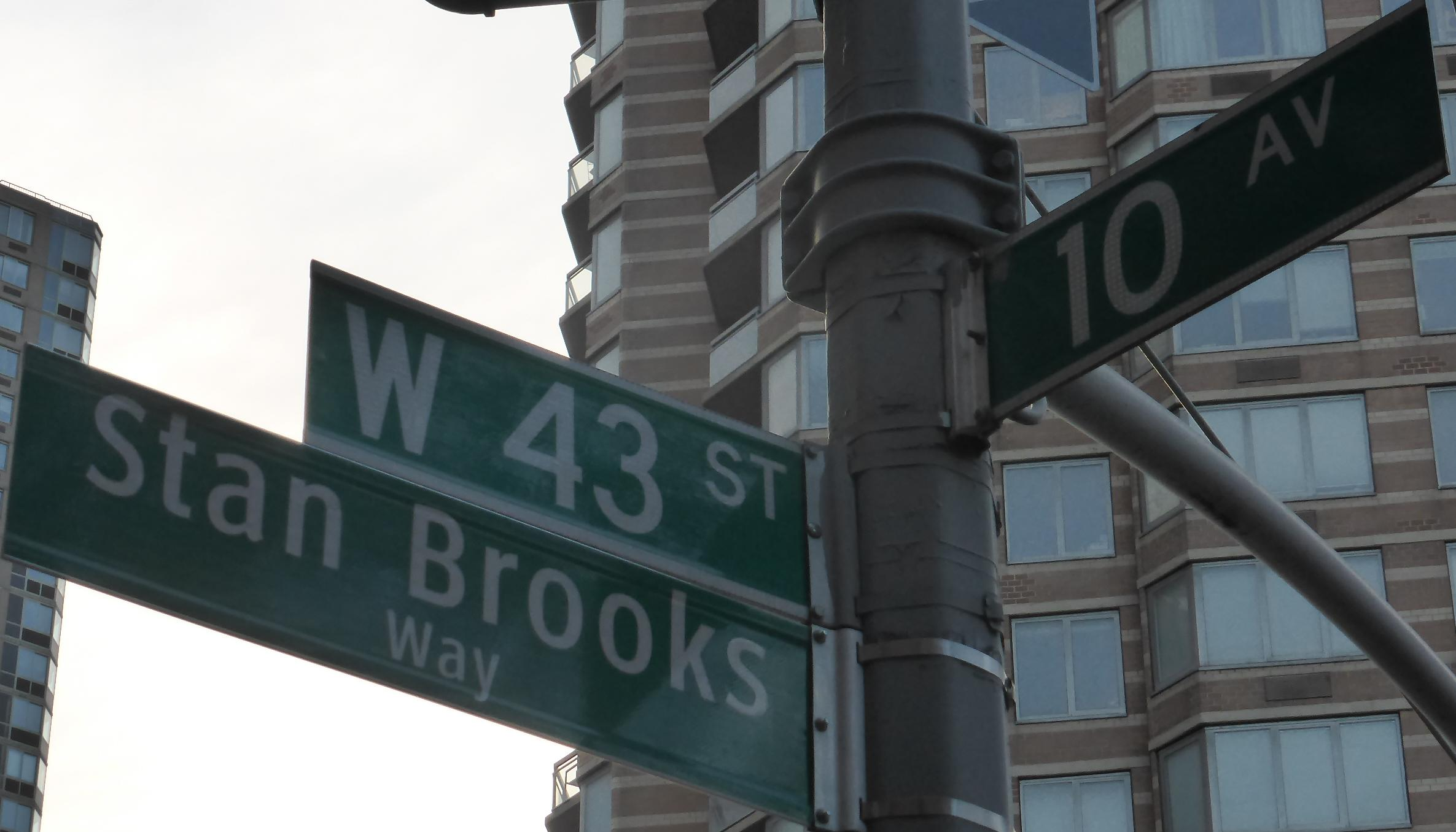 Stan Brooks Way in Hell's Kitchen, New York City